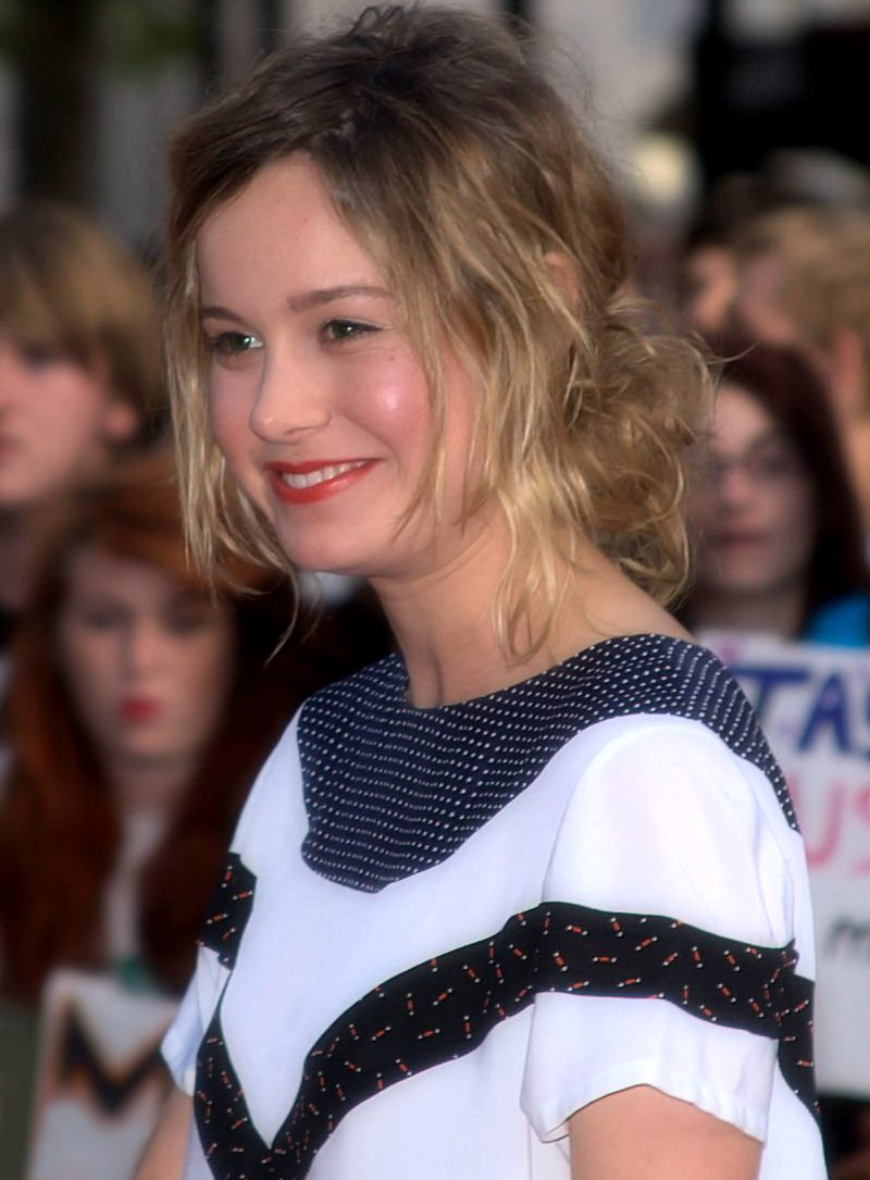 American actress and singer Brie Larson